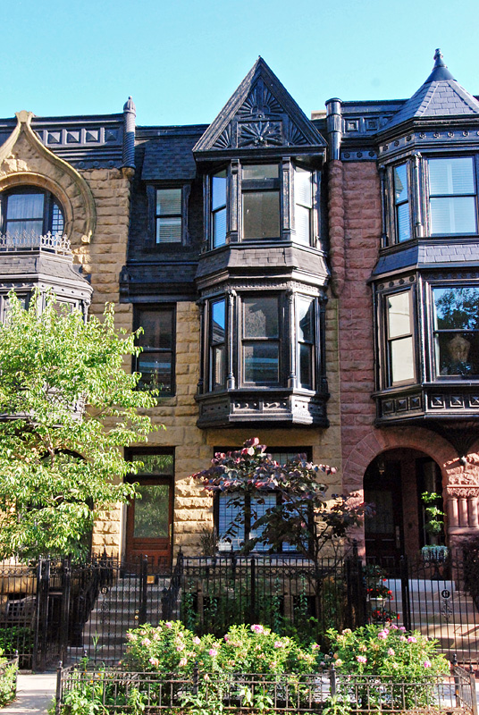 Townhomes on East Division Street in Chicago, Illinois, United States.